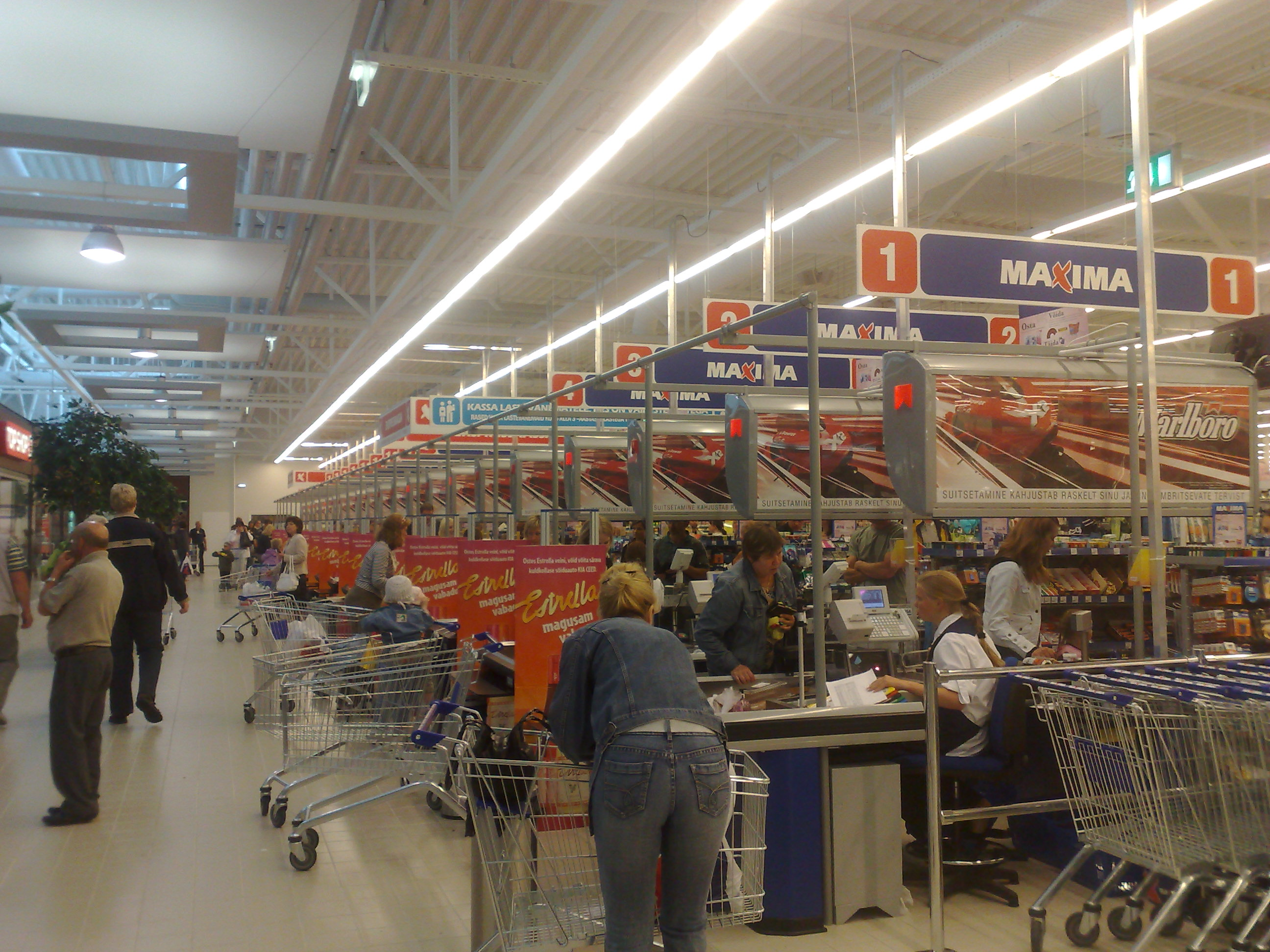 Visiting new shopping center Maxima near Pärnu centrum. There were so many checkout lines that you couldn't even see the last ones. It's truly amazing how they keep building these huge shopping centers in a city with population less than 45 thousand people. I mean, how many of these does a small town need? There already is three of these (or more depending how you count them)...